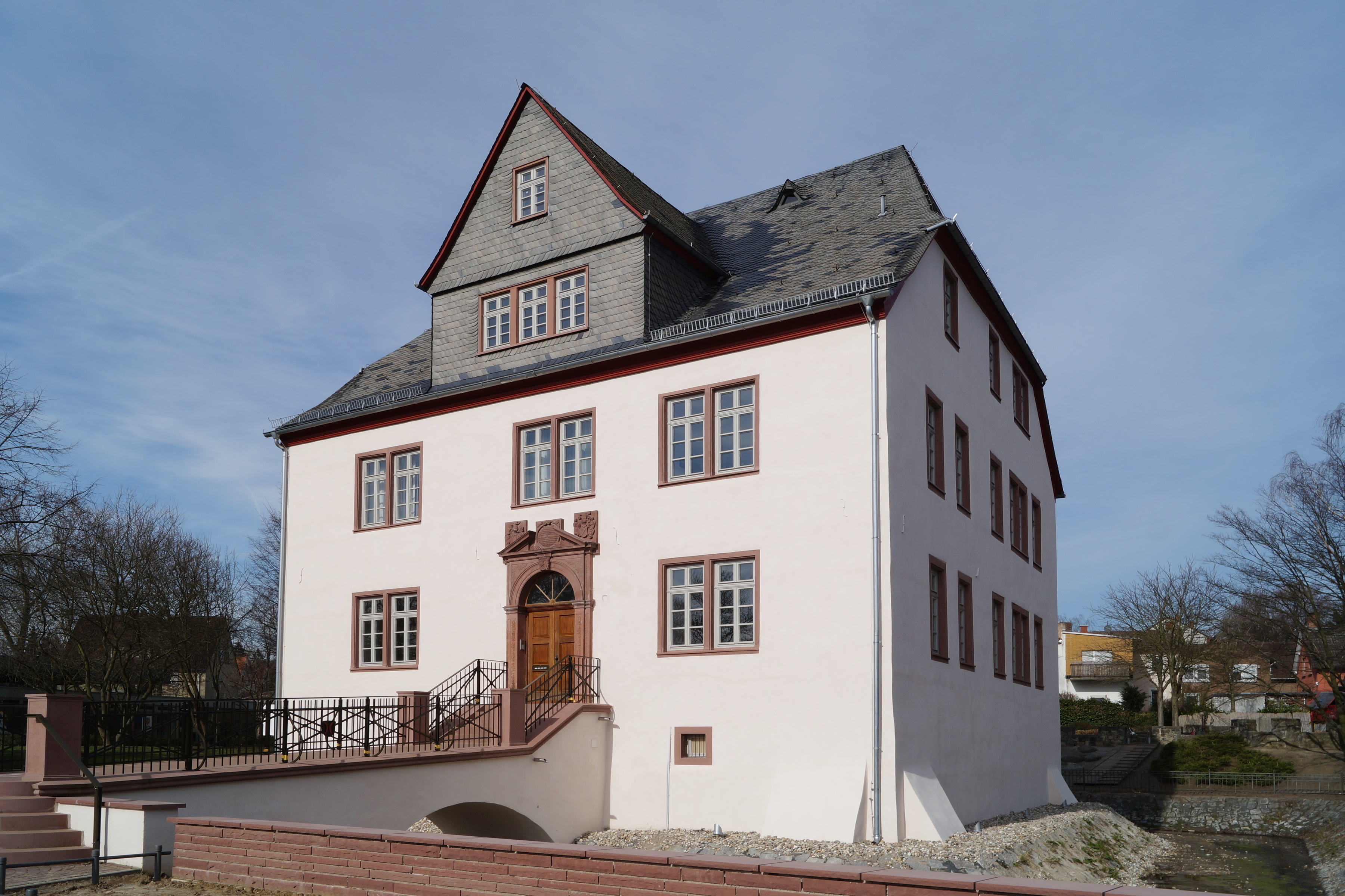 Frankfurt/Main - Bergen-Enkheim, "Schelmenburg", view from south.